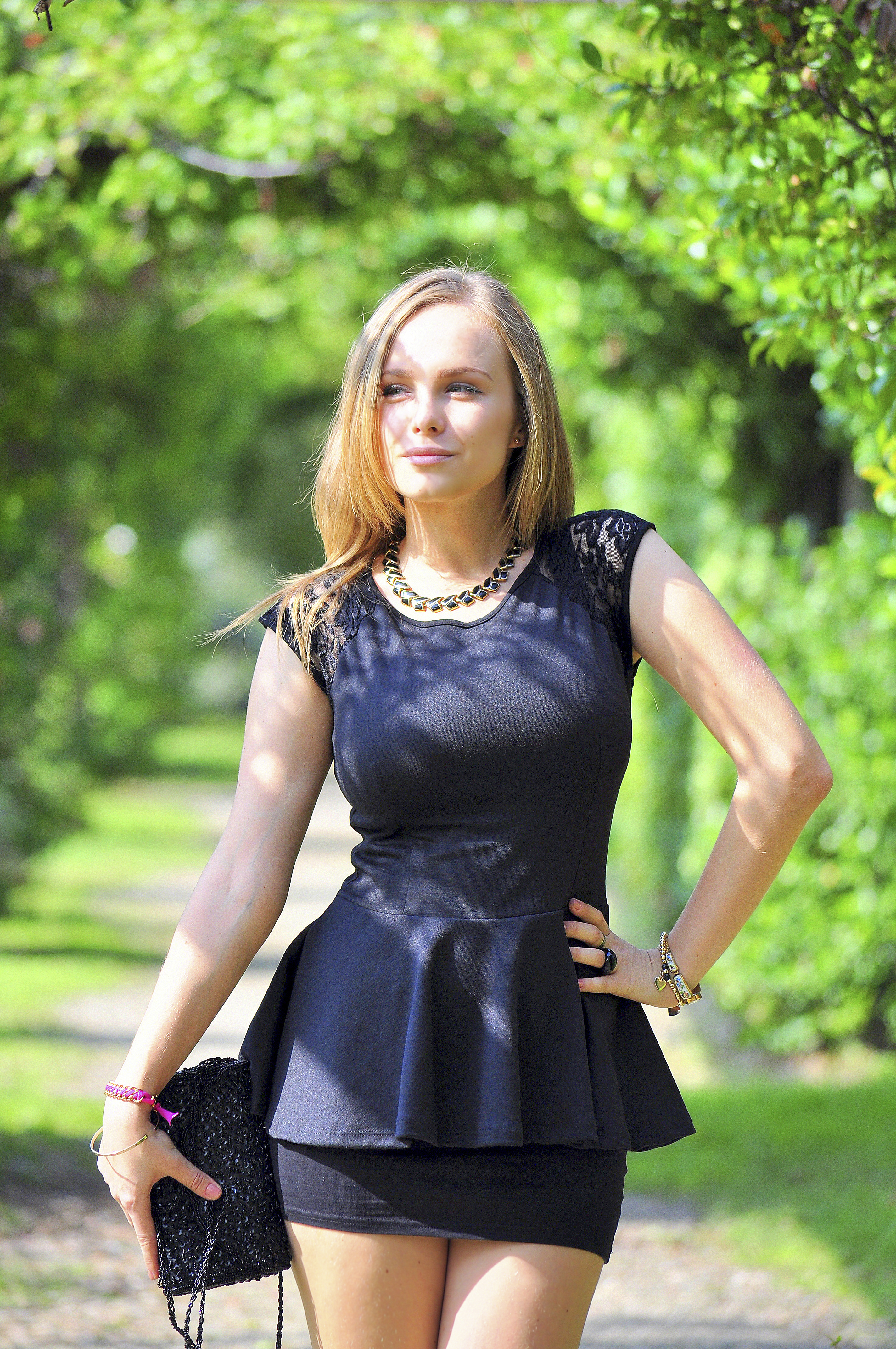 A woman wearing a black shirt with a peplum and a black miniskirt.